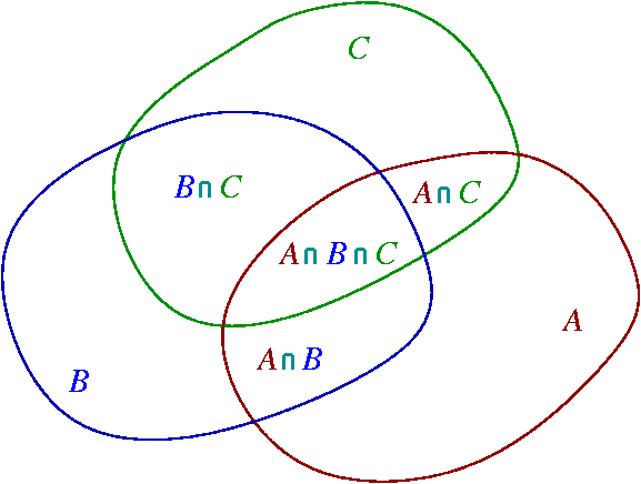 Inclusion/exclusion for three sets